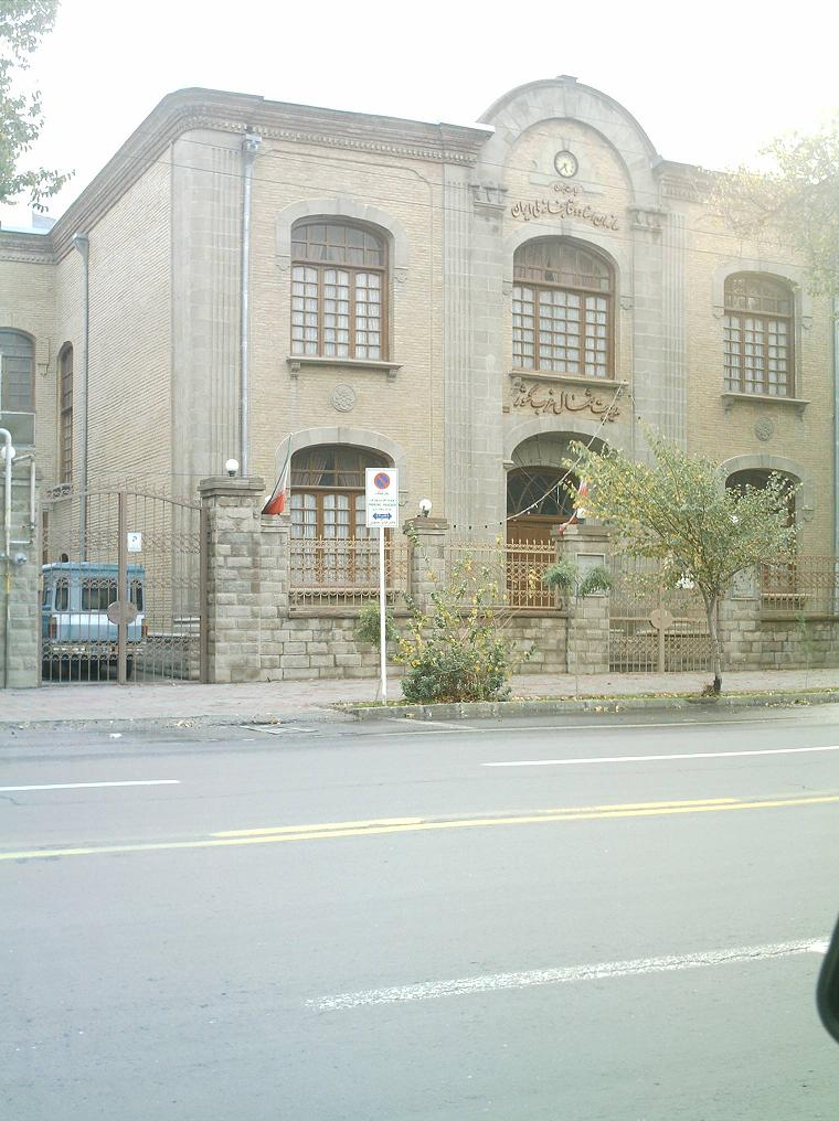 National Iranian Documents and Library Office in Tabriz